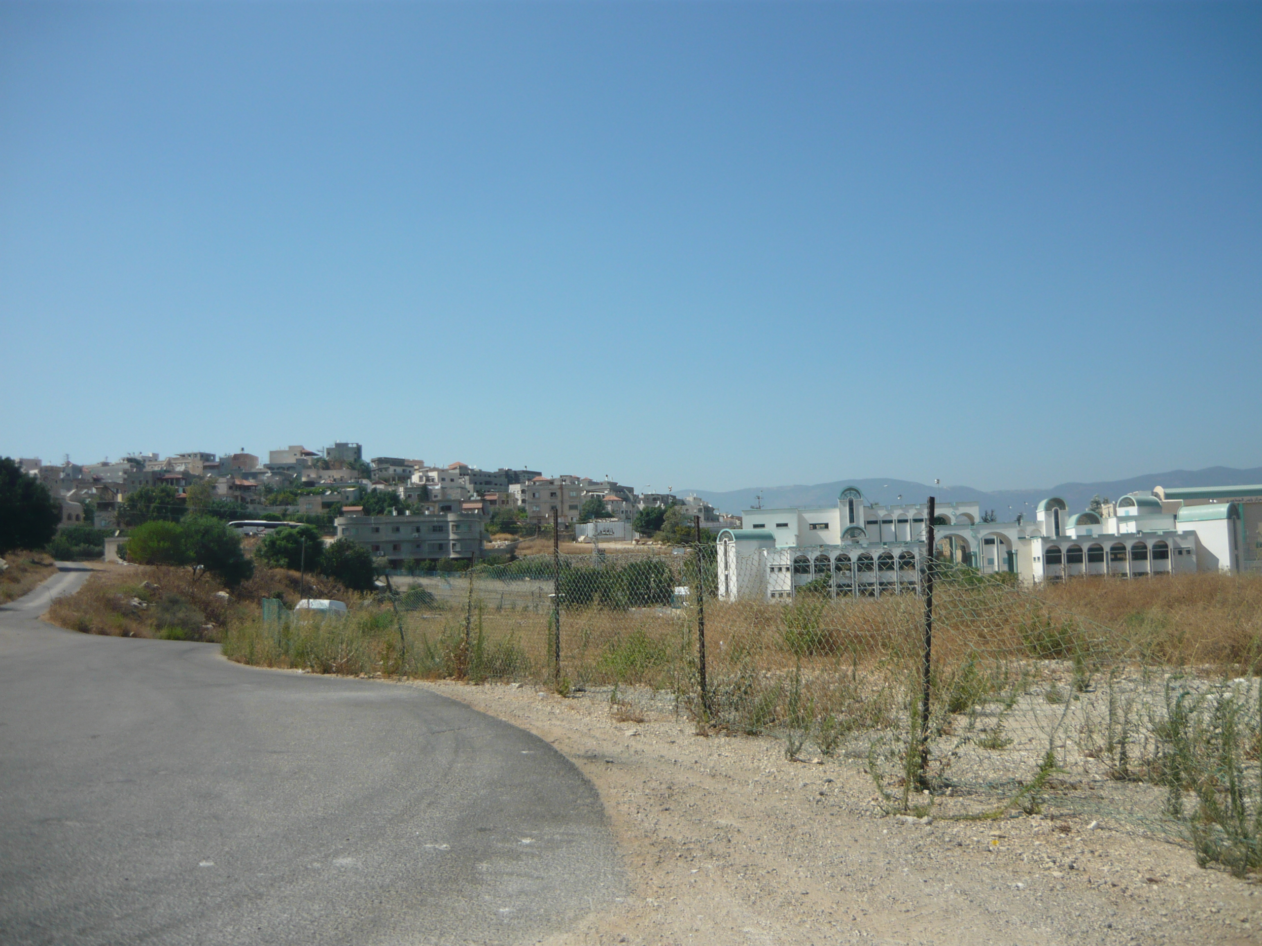 Deir Hanna דיר חנא, מבט ממזרח